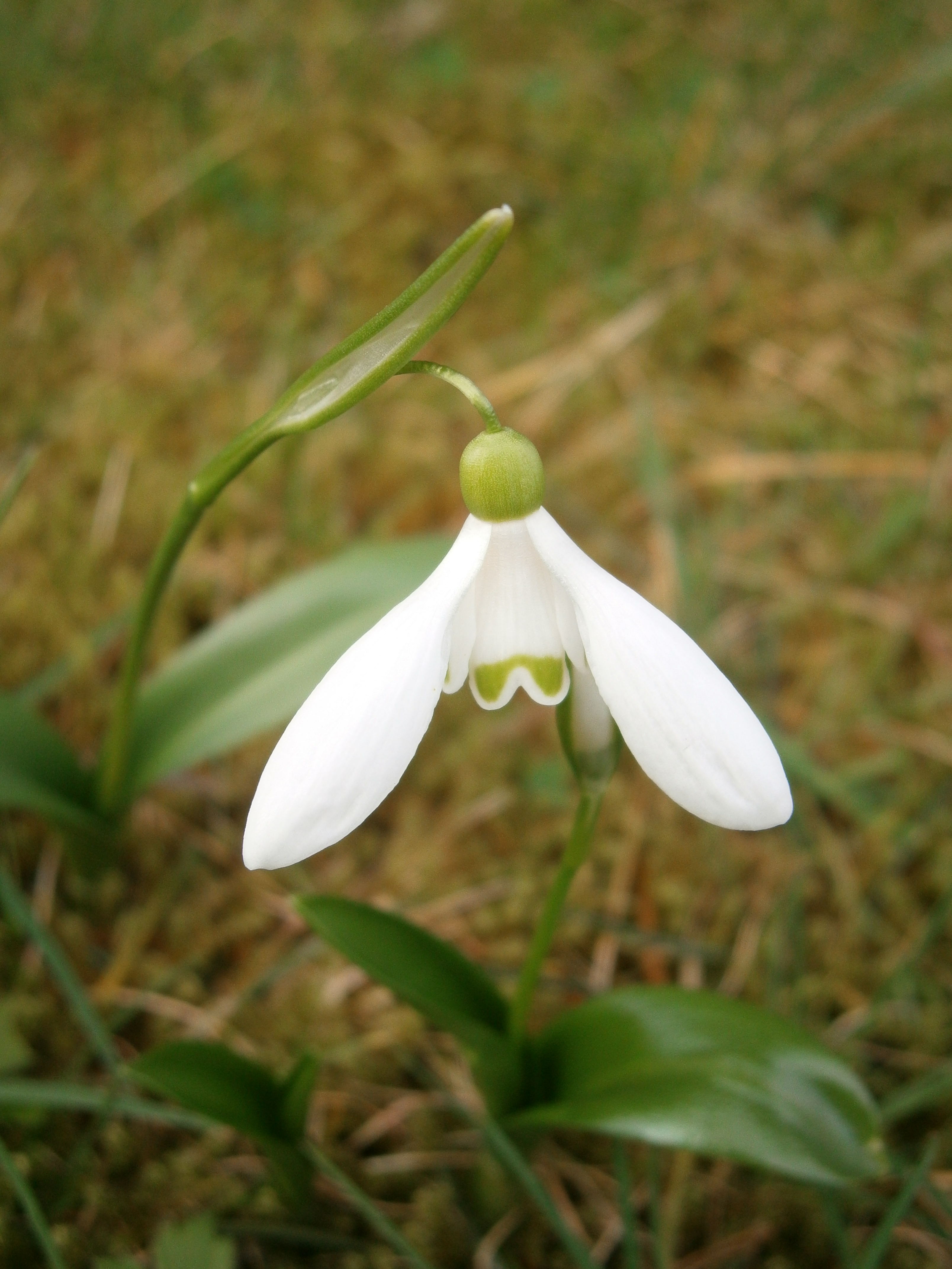 Galanthus woronowii close-up flower